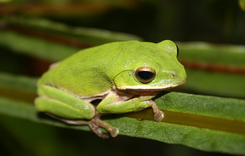 Rhacophorus arvalis from Taiwan